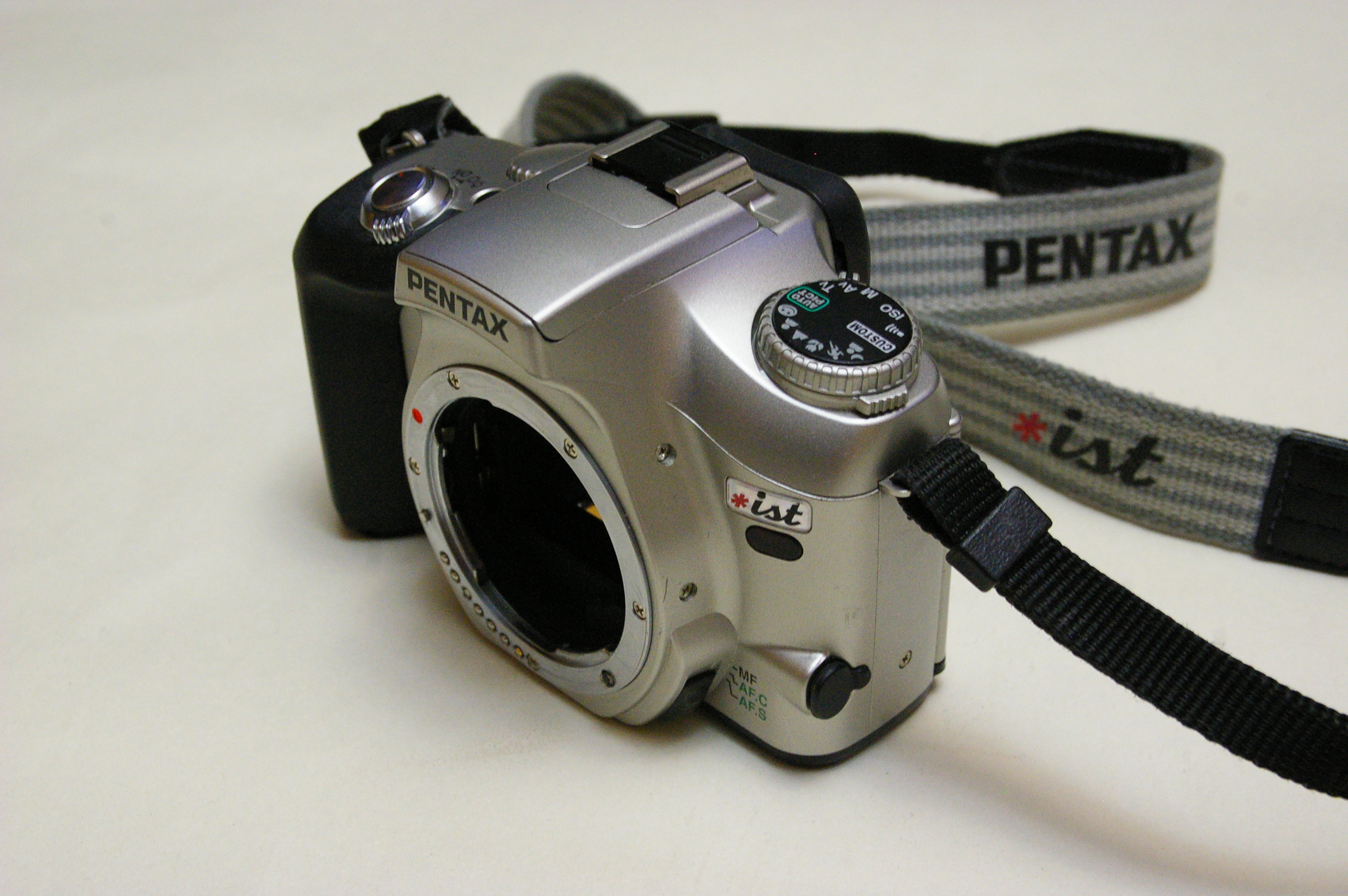 "Pentax *ist" SLR camera.